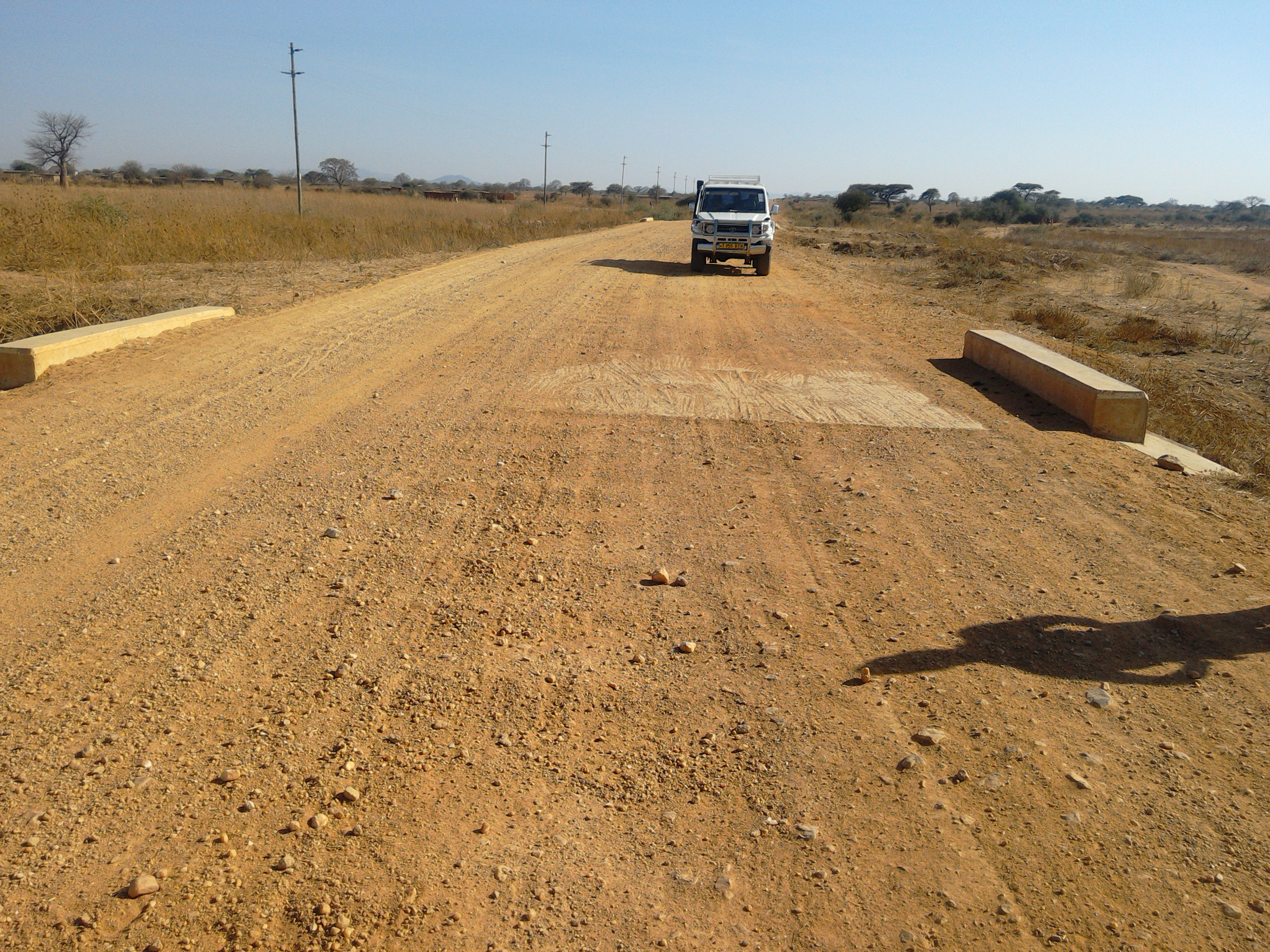 Mpunguzi to Mwitikira Road in Tanzania, the Place is very nice but hot because of it nature of its locality and allocated at the central part of Tanzania. This is an image with the theme "Africa on the Move or Transport" from: Tanzania